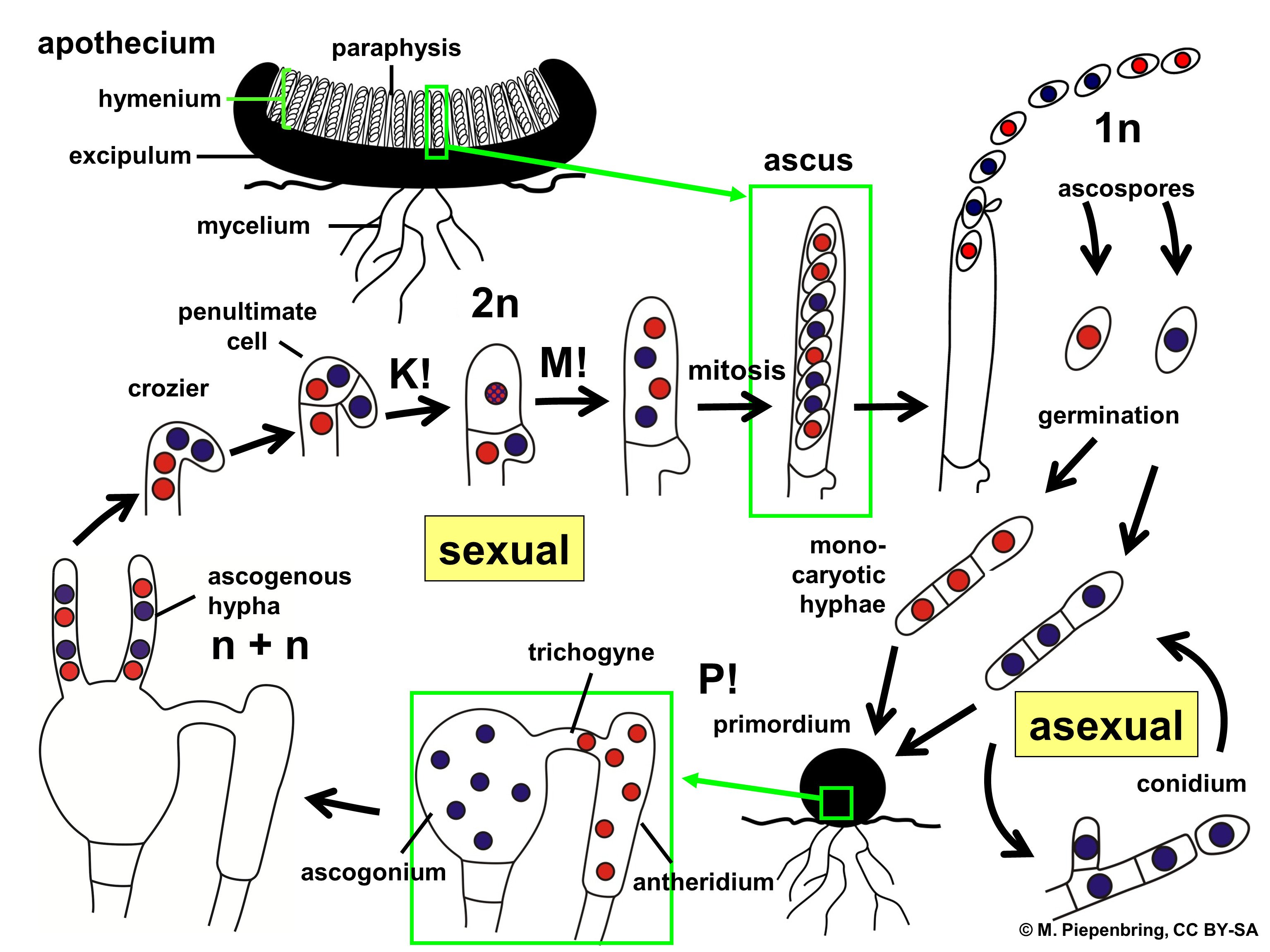 This image shows the sexual and asexual life cycle of the fungal order Pezizales. This order contains sporocarp (truffle) forming ascomycetes.